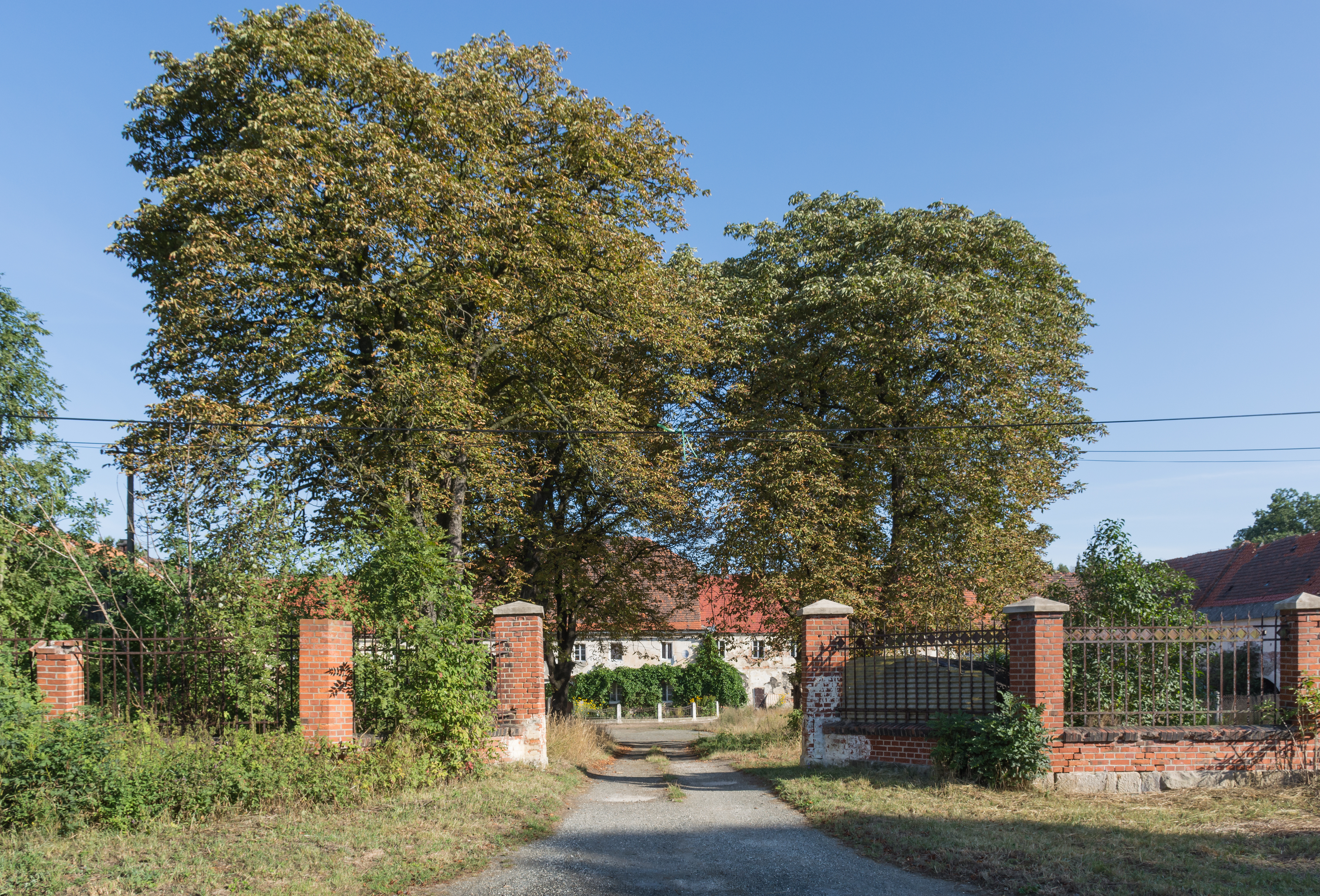 Manor in Stary Wielisław, fence